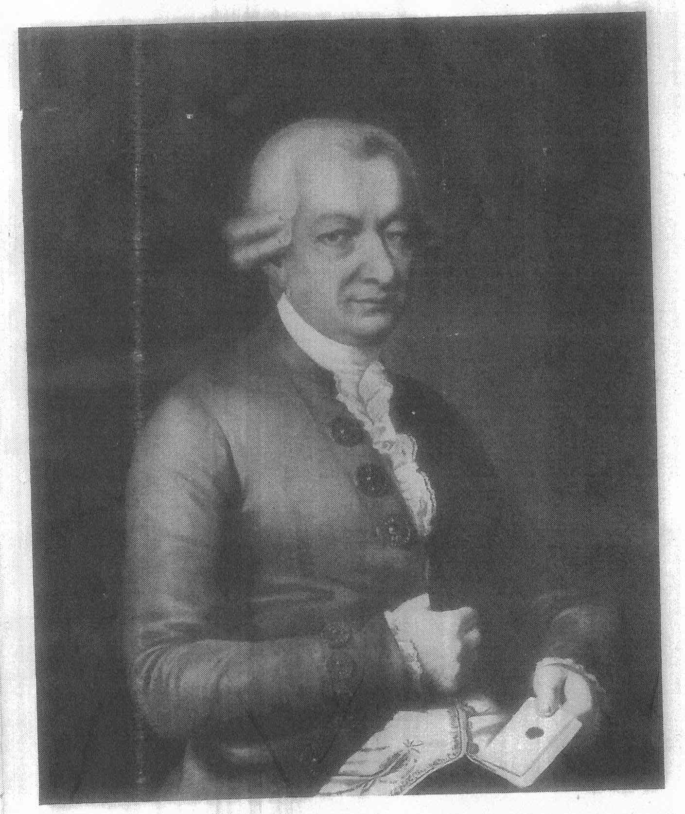 Johann Philipp Bethmann (1715-1793), one of the two founders of "Gebrüder Bethmann", which would later become the Bethmann bank in Frankfurt am Main.